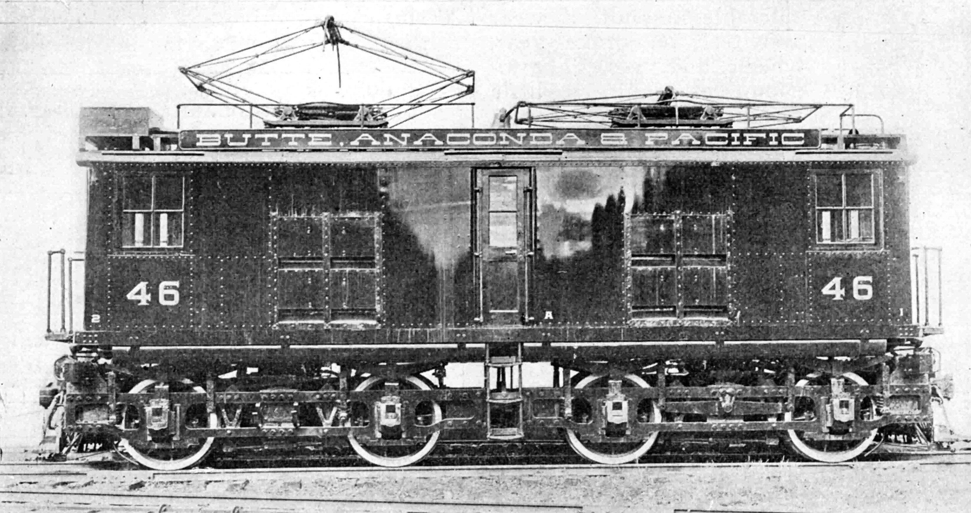 The original image caption was: Electric Locomotive Type 0440-E-160-4GE229-2400V. Built for the Butte, Anaconda & Pacific by the General Electric Company.